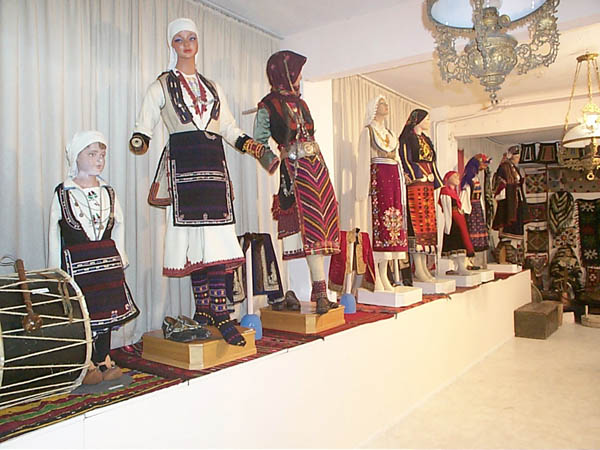 Traditional costumes, image from the Hadzilia Folklore and Ethnological Museum, Serres, East Macedonia, Greece